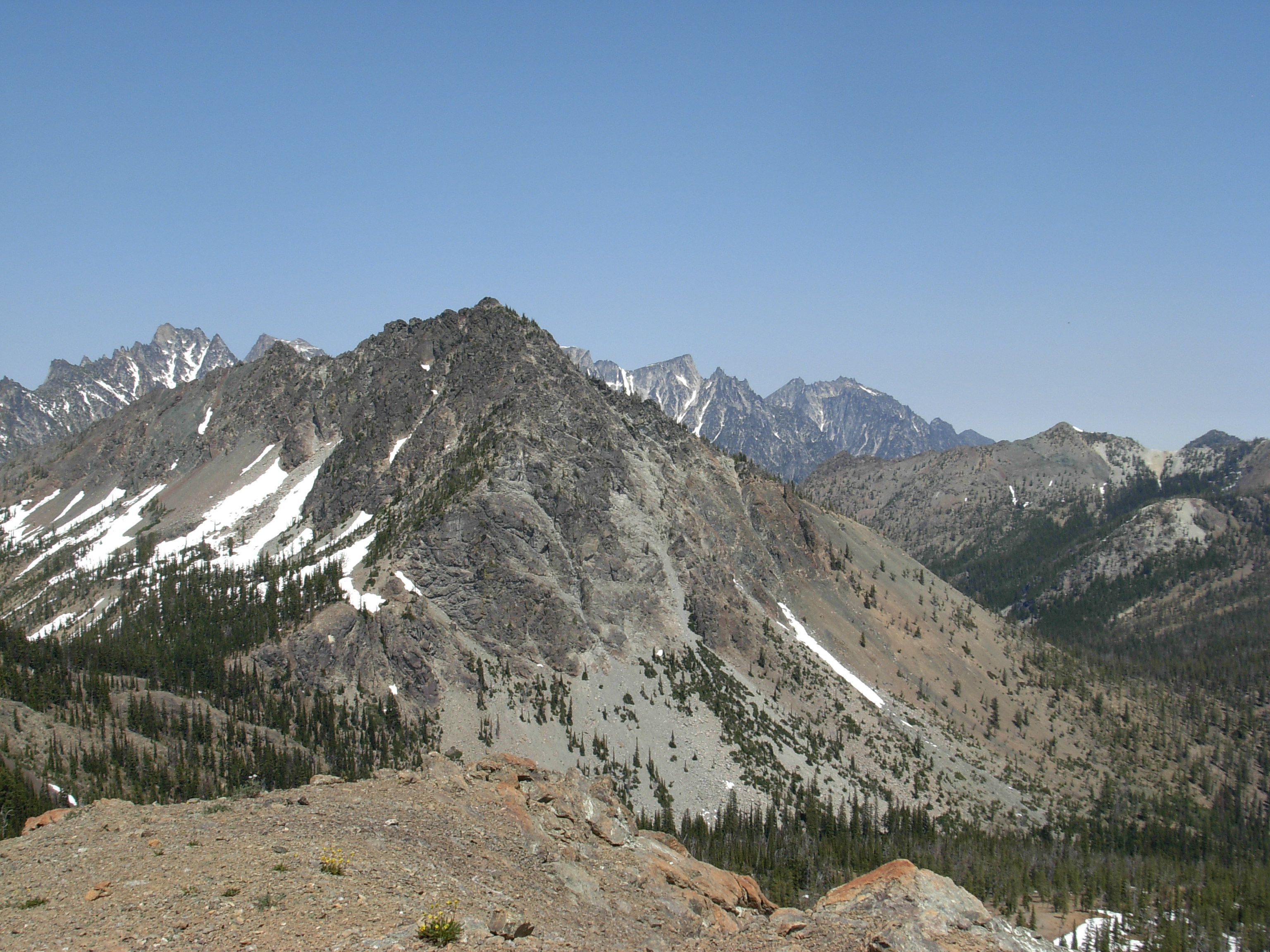 Wenatchee Mountains; Point 6917 feet (foreground); Stuart Range (behind); from 600 m NW of Iron Peak